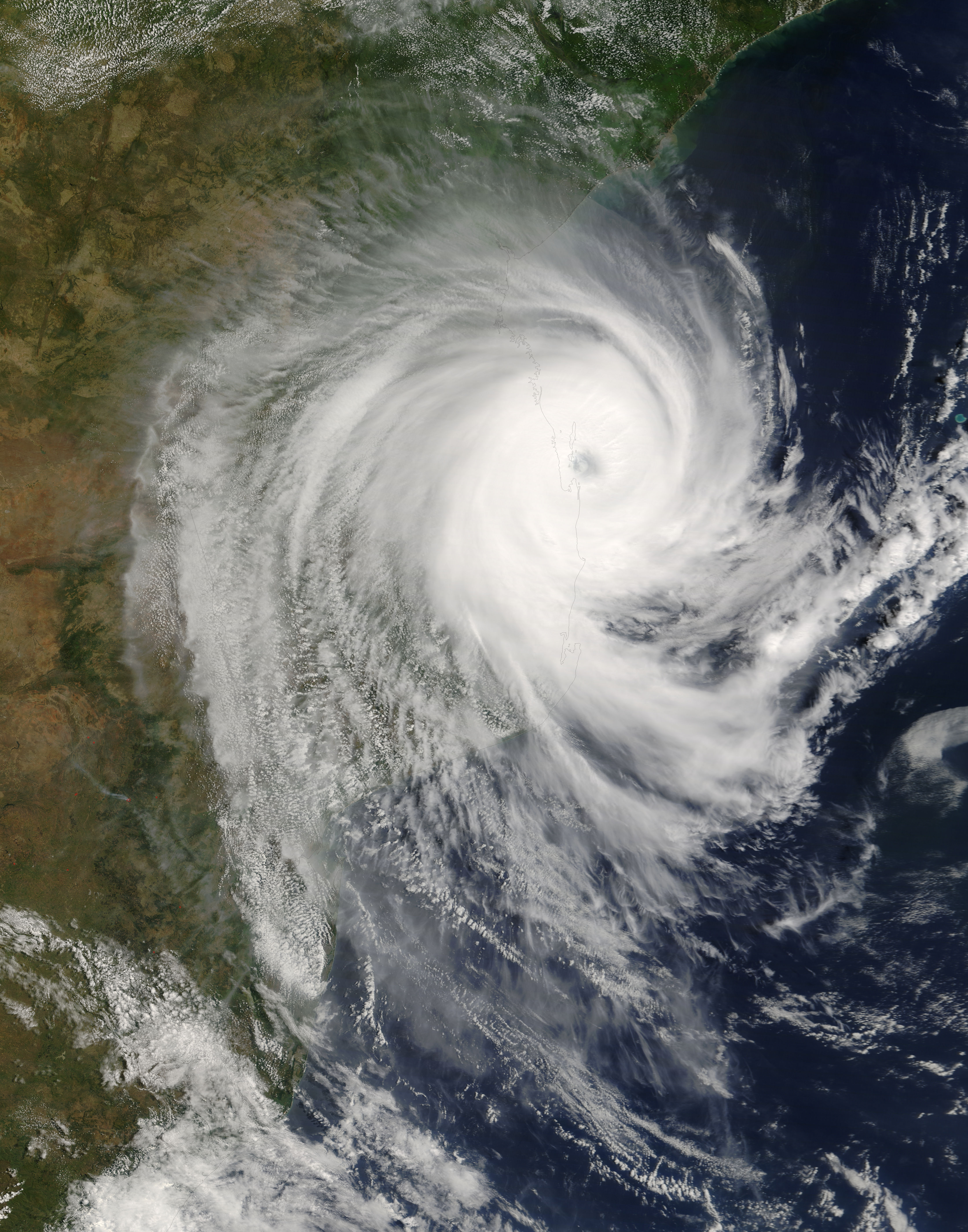 Tropical Cyclone Favio came ashore on the coast of Mozambique in the morning of February 22, 2007. At the time it crossed the shoreline, Favio had lost some strength from its peak the previous day, but still had extremely powerful winds that measured around 203 kilometers per hour (126 miles per hour), according to the Tropical Storm and Reuters AlertNet. The cyclone, the strongest recorded storm to hit Mozambique, was heading directly towards the Zambezi River valley region. This region suffered heavy rains associated with the onset of the monsoon, and severe flooding along the Zambezi River in mid-February killed dozens of people and forced more than a hundred thousand people to evacuate, according to reports from the International Federation of Red Cross and Red Crescent Societies posted online by ReliefWeb. This photo-like image was acquired by the Moderate Resolution Imaging Spectroradiometer (MODIS) on the Terra satellite on February 22, 2007, at 10:20 a.m. local time (8:20 UTC), just as the storm was coming ashore. The eye of the storm was just off the coast as MODIS observed the cyclone. Favio had the recognizable shape of a mature, southern hemisphere tropical cyclone, with spiral arms showing its clockwise rotation, and a well-defined eye with strong eyewall (inner ring) clouds. The high-resolution image provided above is at MODIS’ full spatial resolution (level of detail) of 250 meters per pixel. The MODIS Rapid Response System provides this image at additional resolutions.